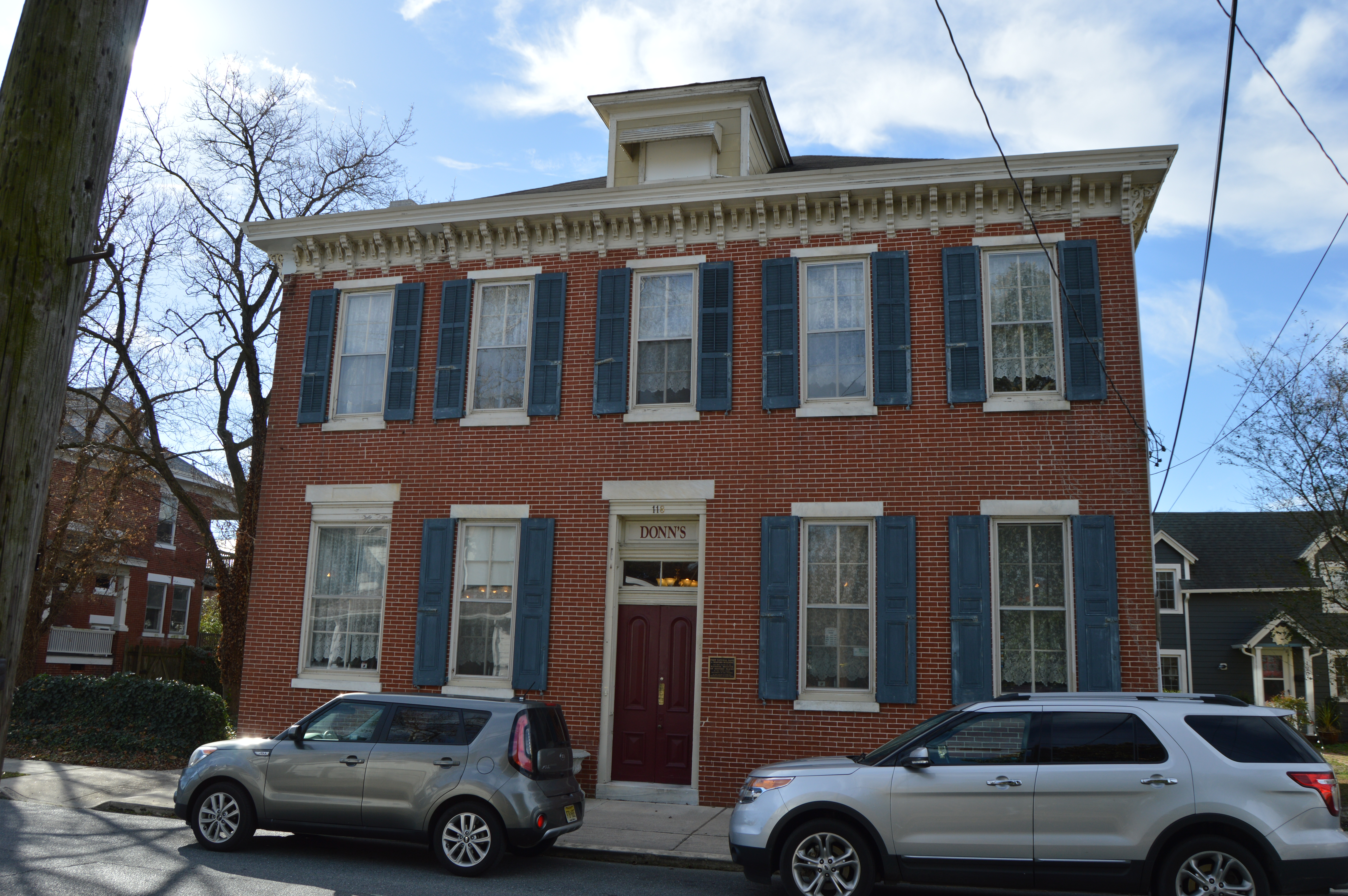 Front of the First National Bank of Seaford, located at 118 Pine Street in Seaford, Delaware, United States. Built in 1868, it is listed on the National Register of Historic Places.